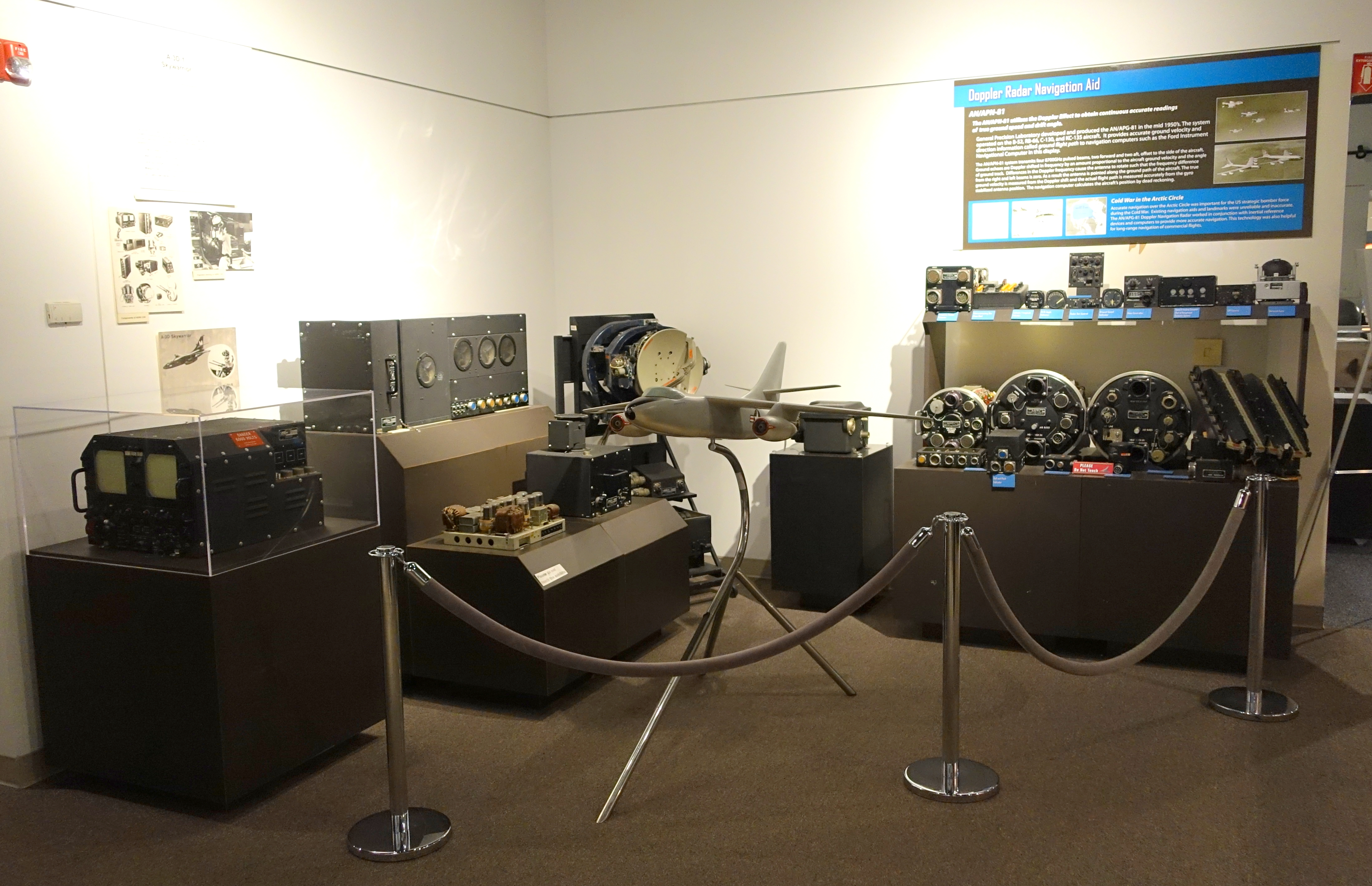 Exhibit in the National Electronics Museum, 1745 West Nursery Road, Linthicum, Maryland, USA. All items in this museum are unclassified. The museum permitted photography without restriction.